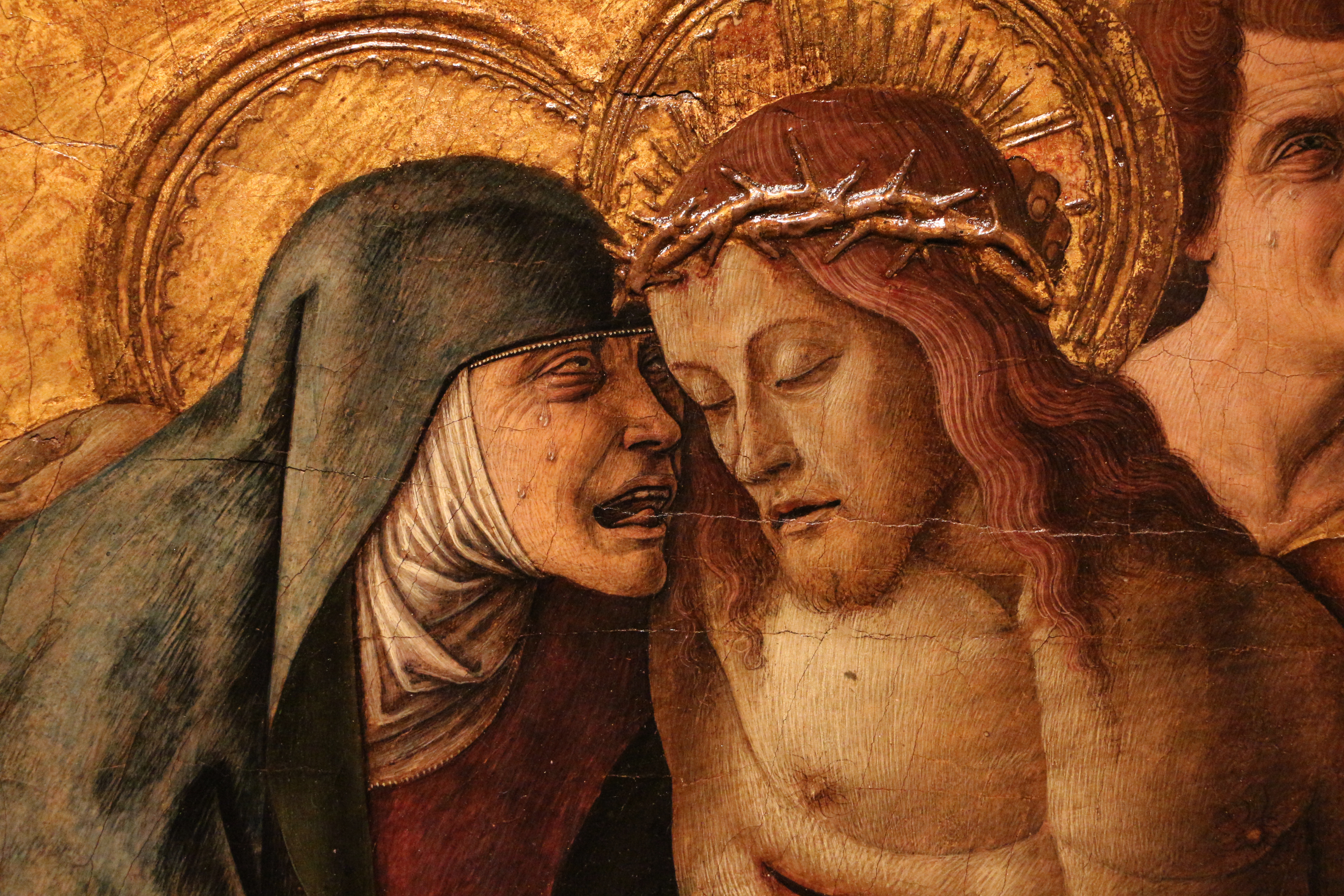 paintings in the Detroit Institute of Arts